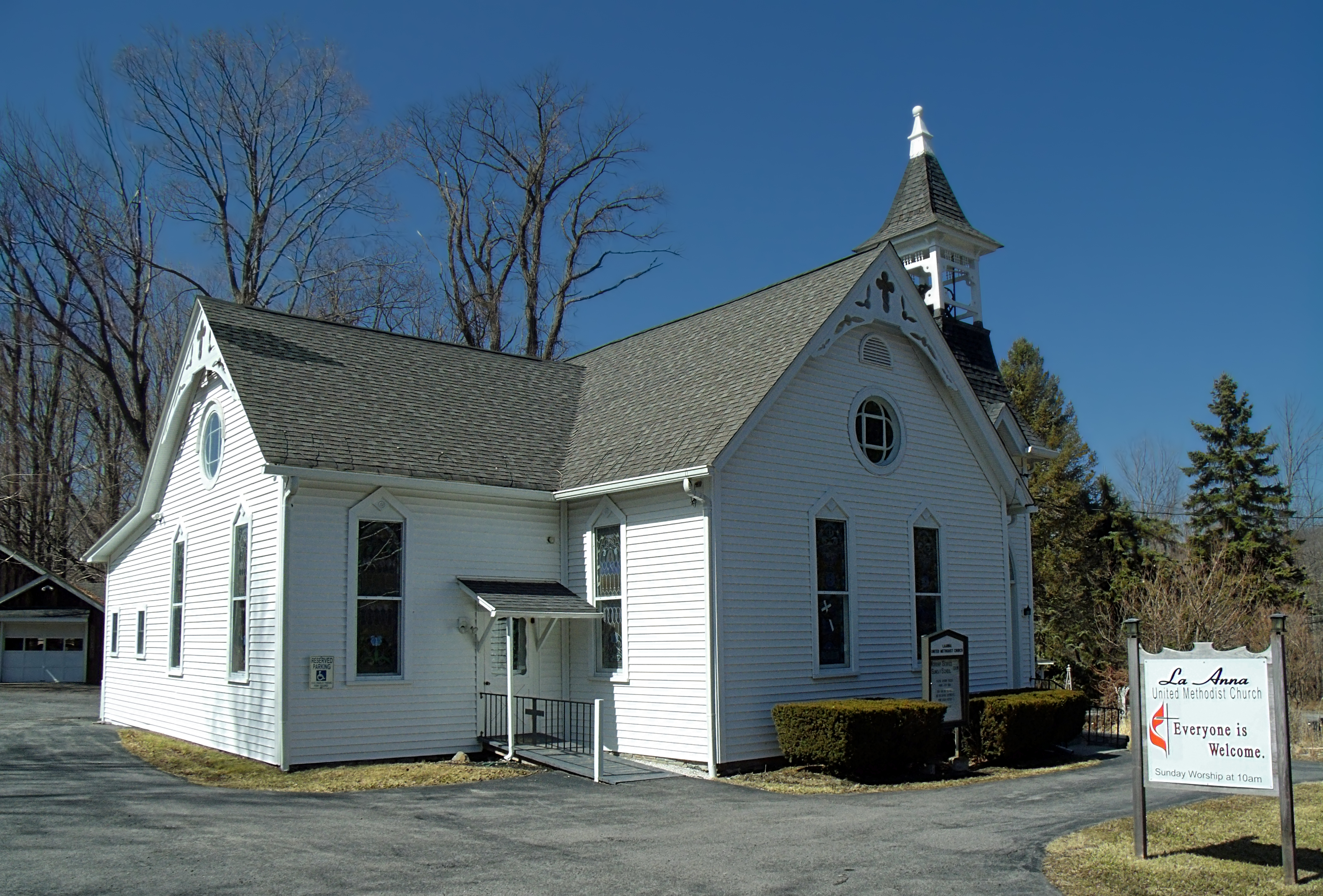 Church along PA Route 191, Pike County, within the village of La Anna.